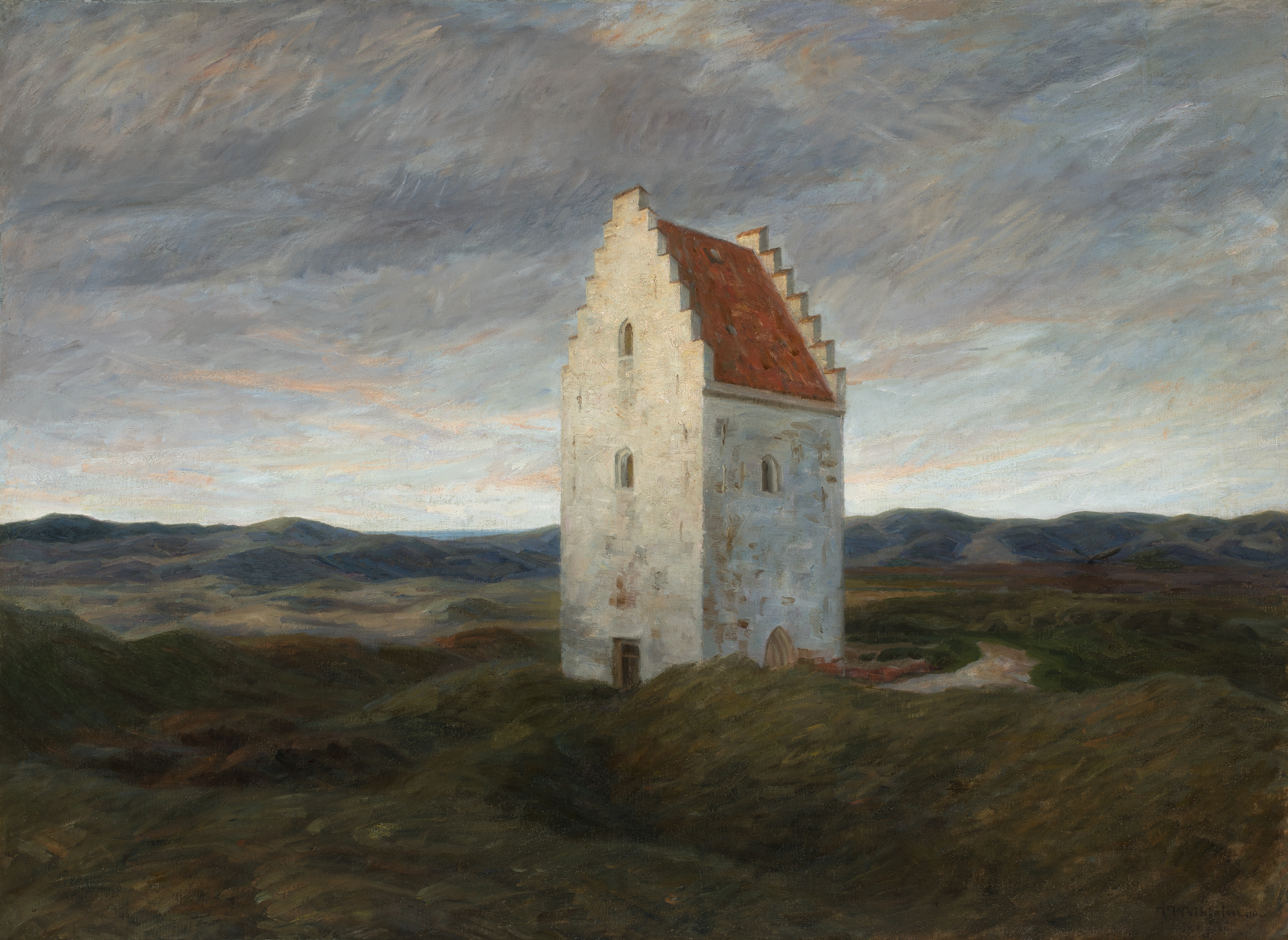 Painting by Johannes Wilhjelm titled Skagens gamle kirke. Nat, Sand-Covered Church from 1910, Skagens Museum.